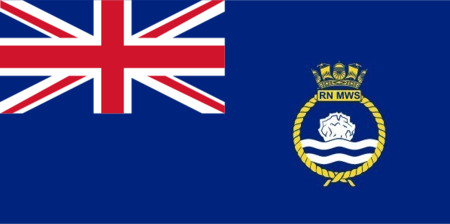 The Ensign of Royal Naval MineWatching Service.Circular Yellow Cable, surmounted by Naval Crown and Panel inscribed R N M W S, enclosing Mine Exploding in Heraldic Sea against Blue background1954-1962. The ship's badge of RNMWS. Formed in 1952, Base image RNXS ensign "wiki commons"